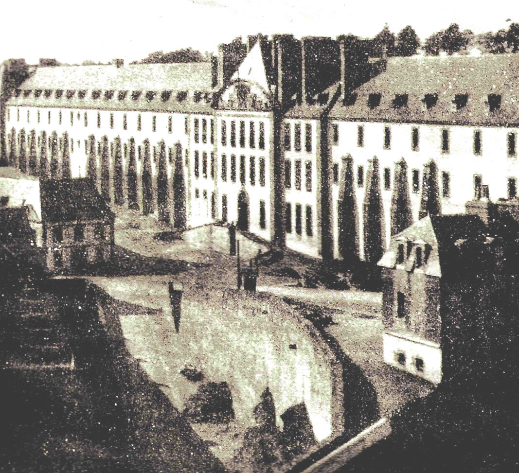 The penal colony of Brest